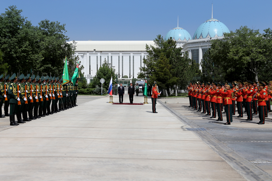 Minister of Defense of Russia Sergei Shoigu visiting Ashgabat in 2016.